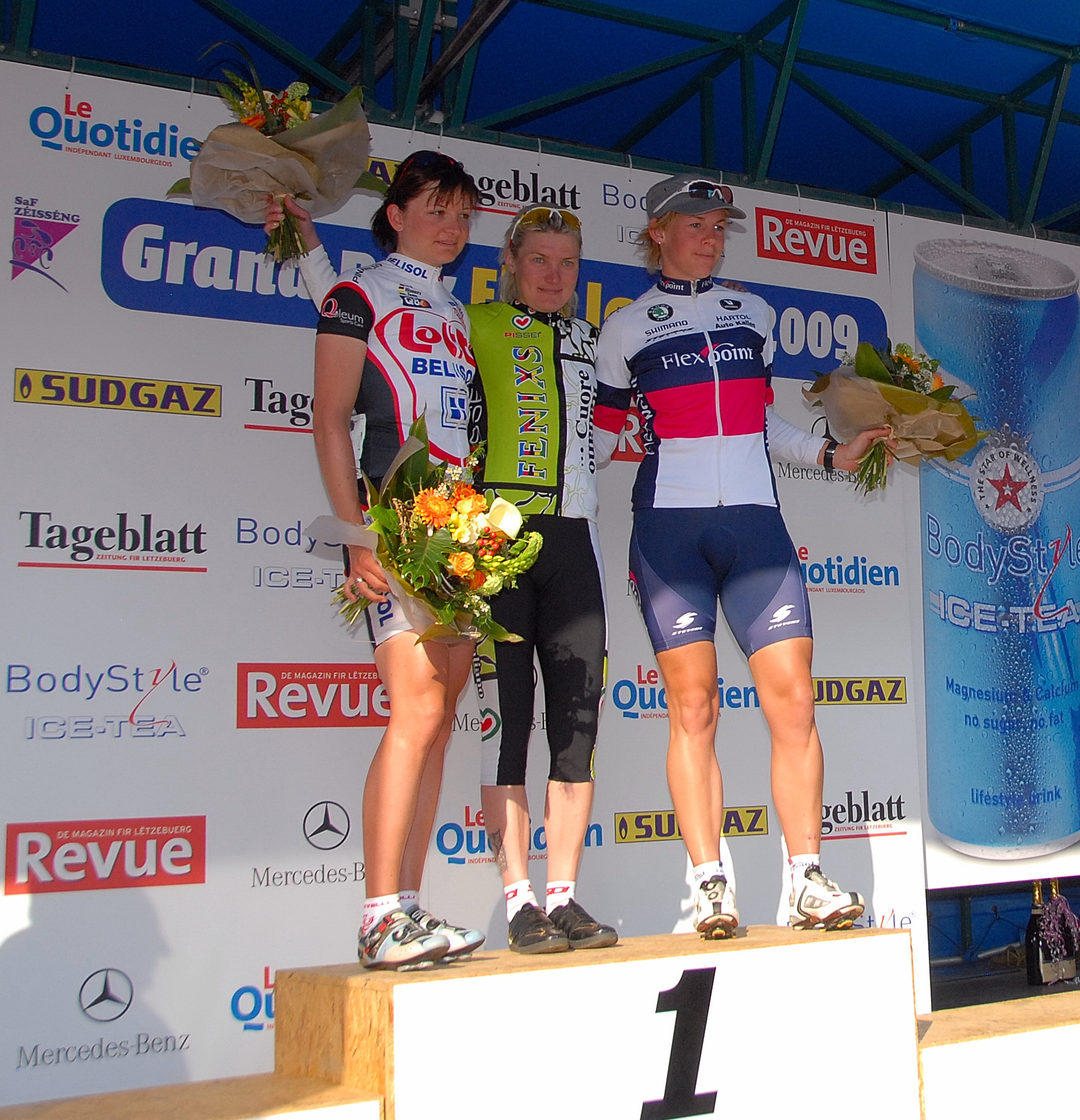 Podium of Grand Prix Elsy Jacobs 2009 (UCI WE 1.1.), in Garnich, Luxembourg. From left to right: Grace Verbeke (Bel), Svetlana Bubnenkova (Rus), Iris Slappendel (Ned)